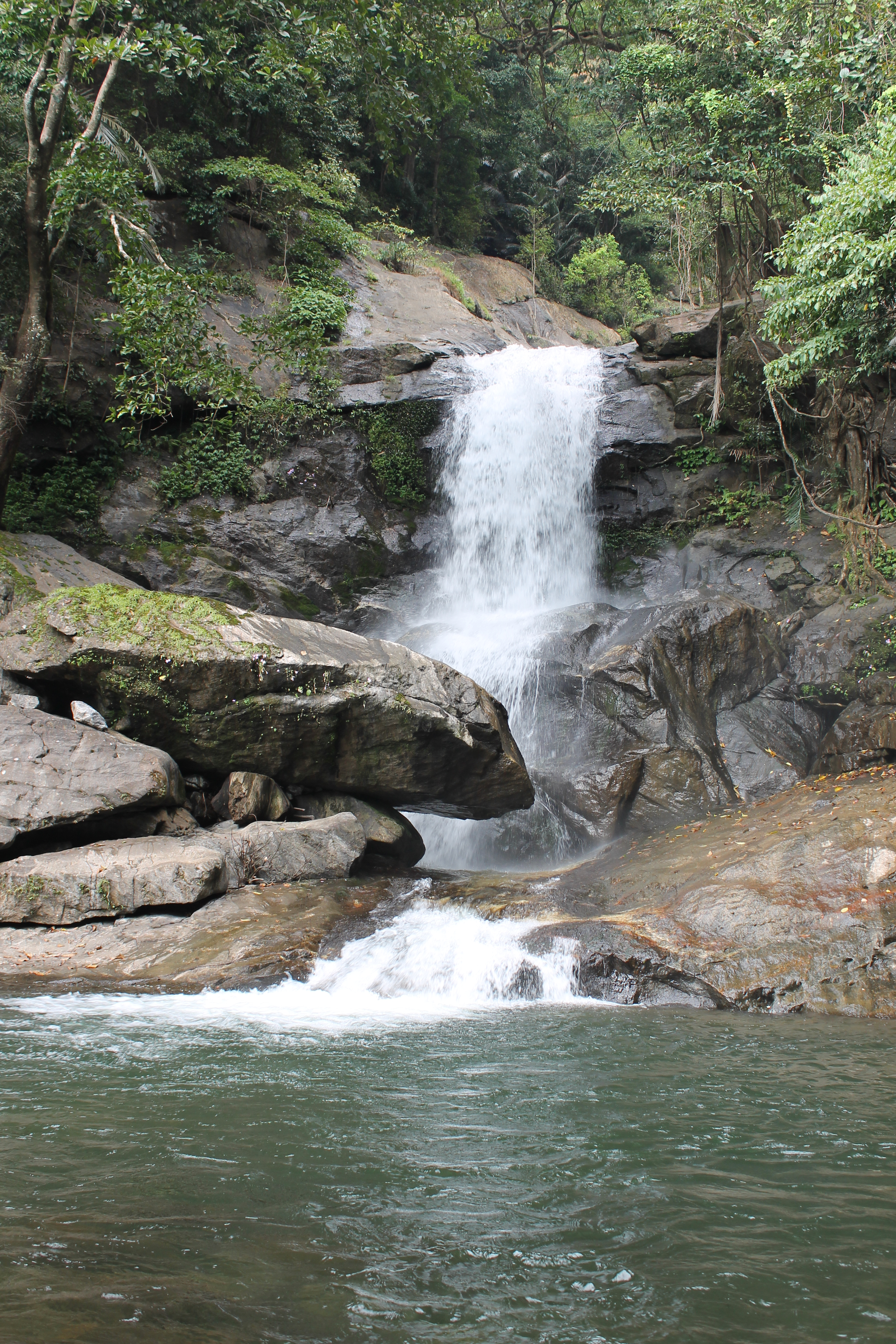 Meenvallam Waterfalls - Final Stage - Karimba, Palakkad District , Kerala